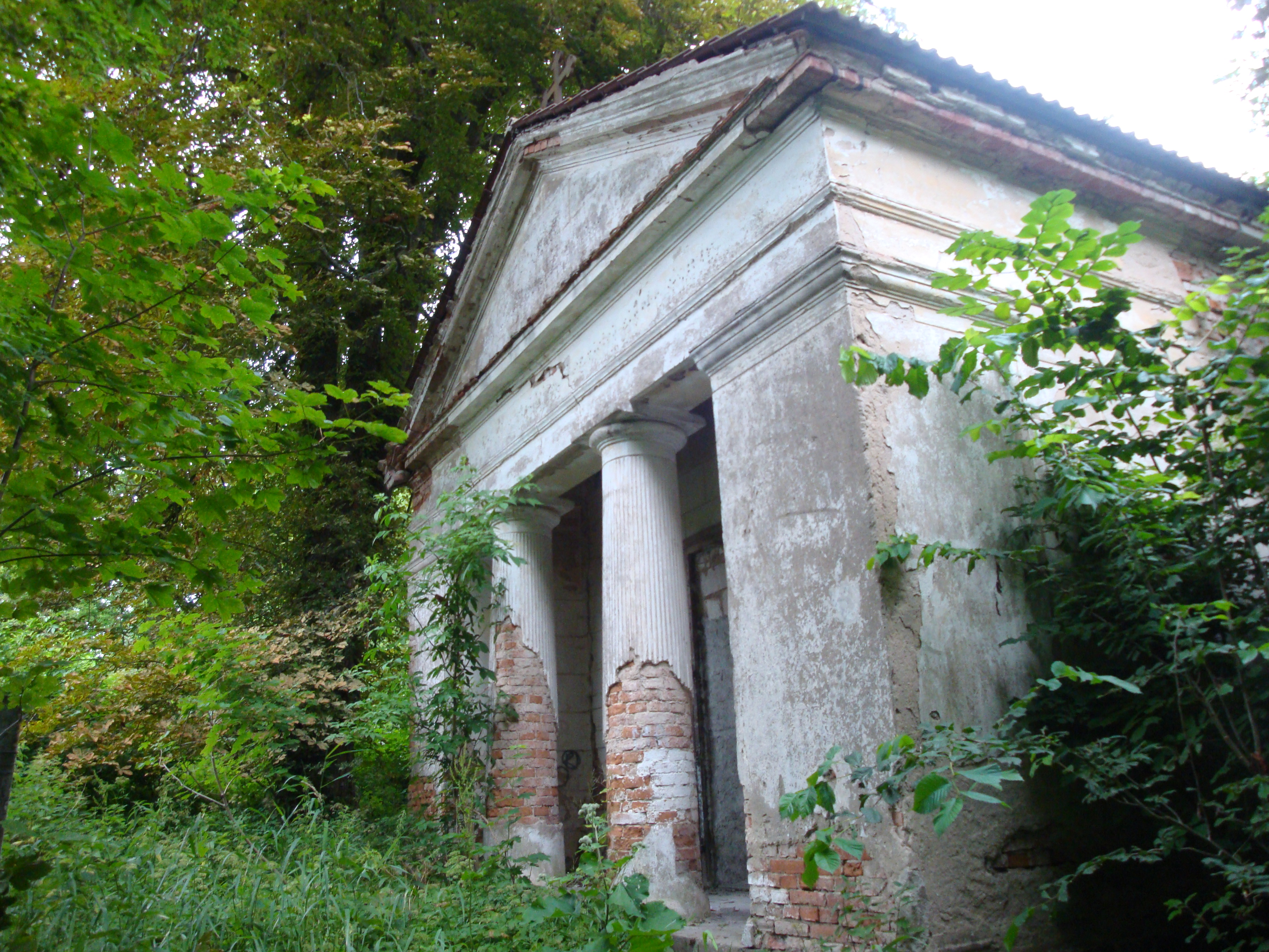 Charbrowo-village in Gmina Wicko, Poland. Mausoleum Somnitz family. Coffins moved to local cementery